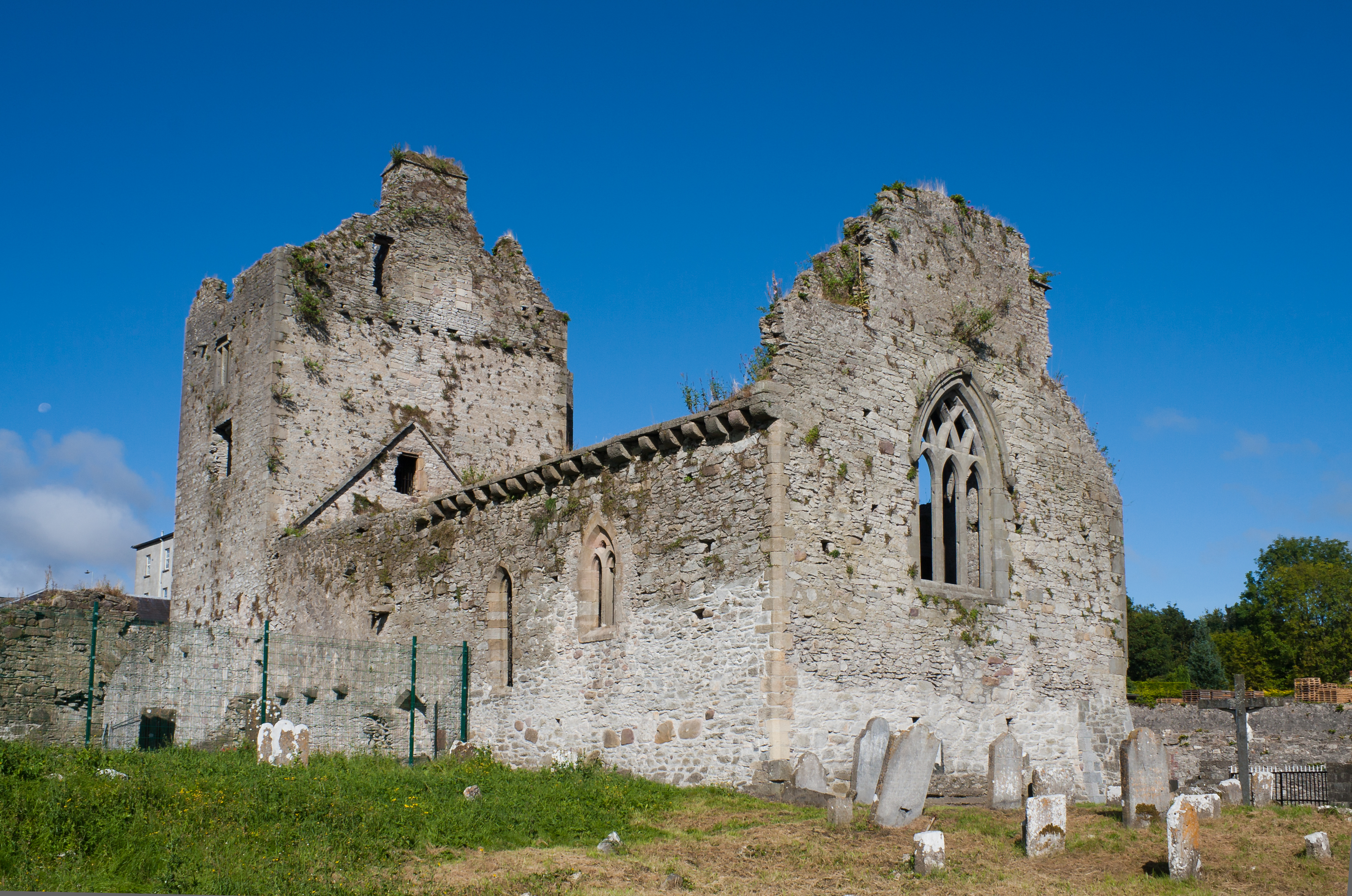 South-east view of choir and tower.